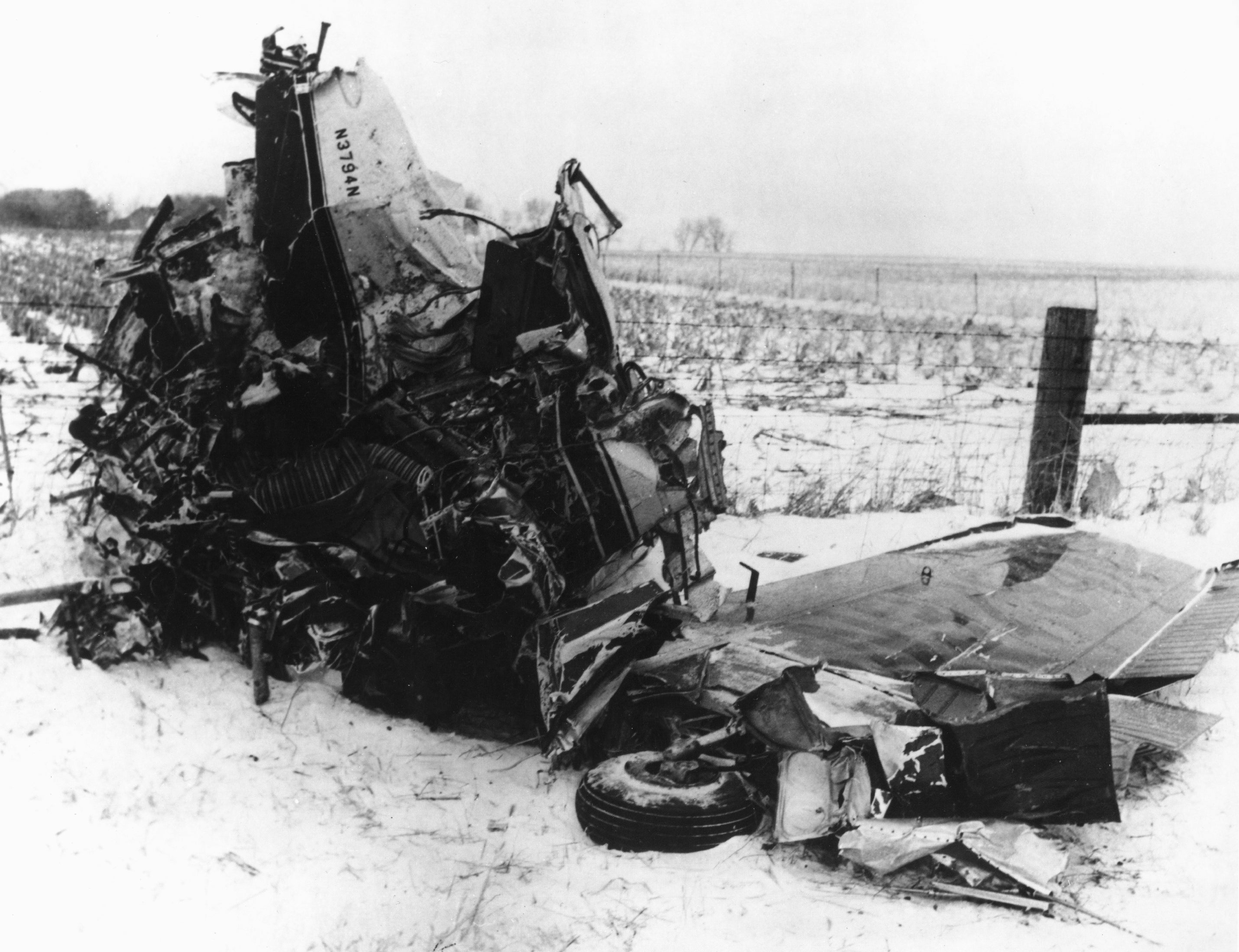 Photo of the aviation accident known as "The Day the Music Died", that occurred on February 3, 1959, near Clear Lake, Iowa, where rock and roll musicians Buddy Holly, Ritchie Valens, and J. P. "The Big Bopper" Richardson, as well as the pilot, Roger Peterson perished. The photo was taken by the Civil Aeronautics Board (CAB) in the course of their investigation of the crash. The CAB is the precursor to today's National Transportation Safety Board (NTSB), and was a part of the Department of Transportation.